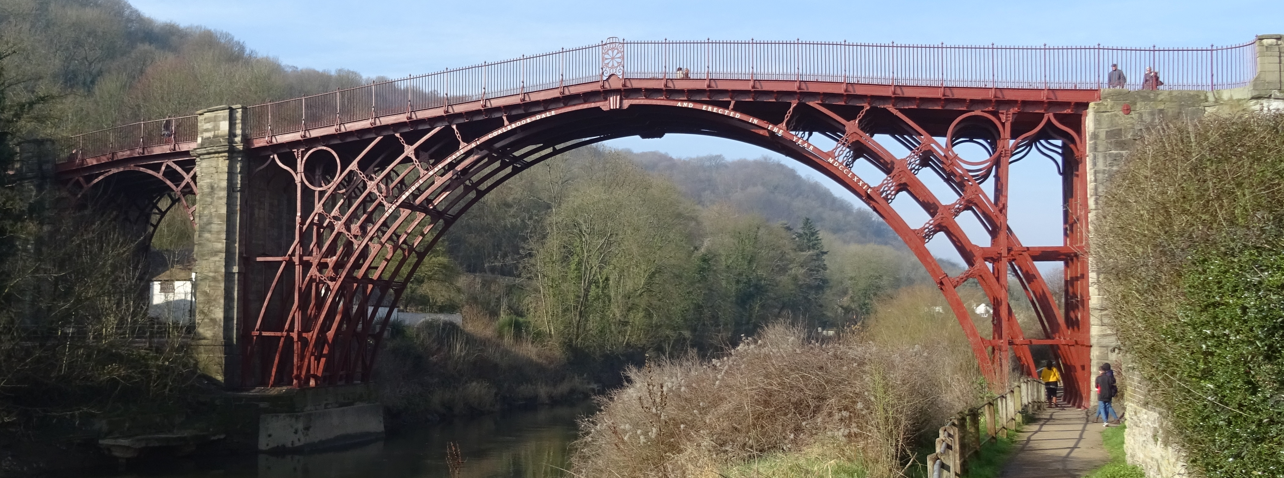 The east side of the Iron Bridge, Shropshire in February 2019 showing the dark red paint added in the 2018 restoration.